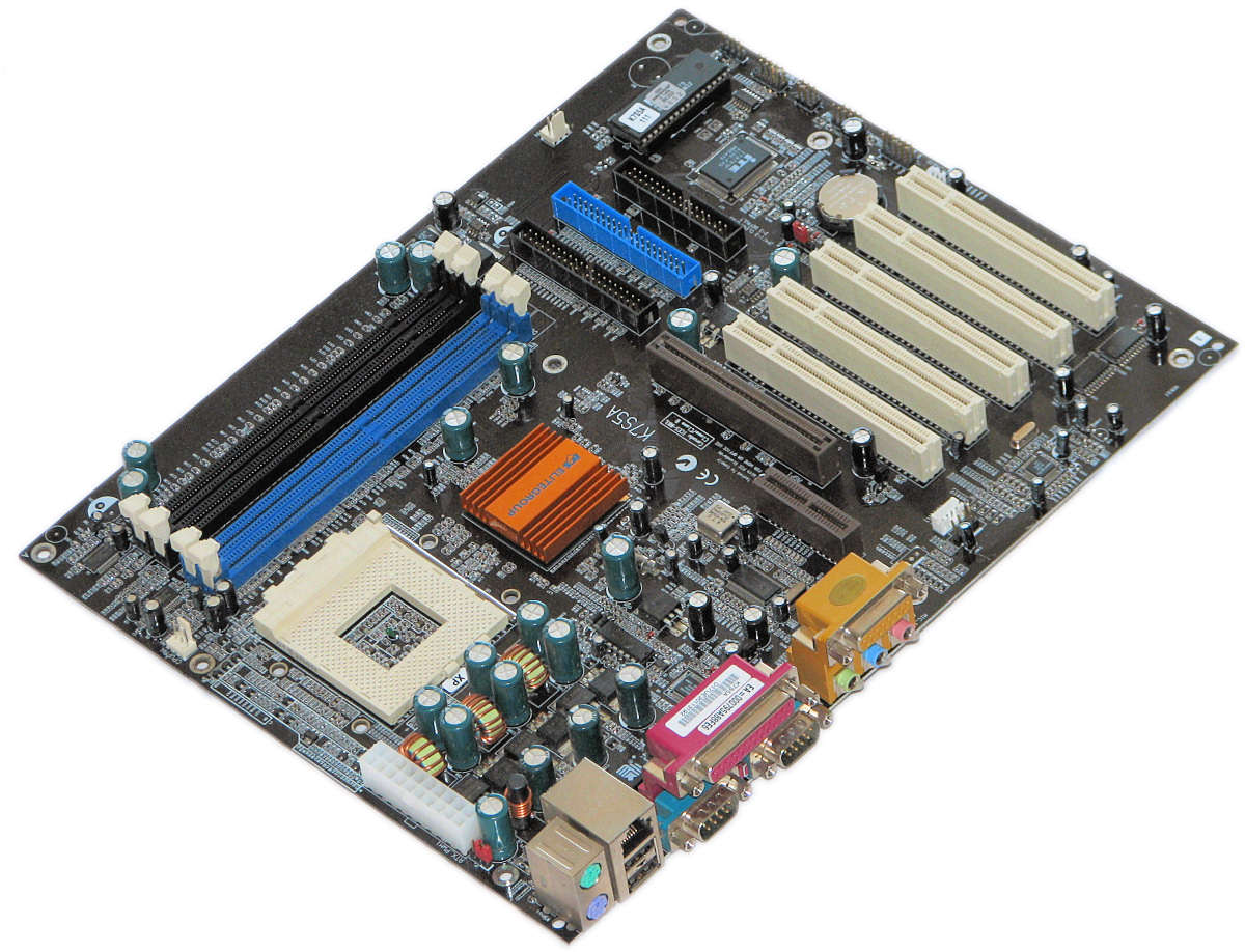 This image shows a mainboard, type: Elitegroup K7S5A with SIS 735 Chipset.